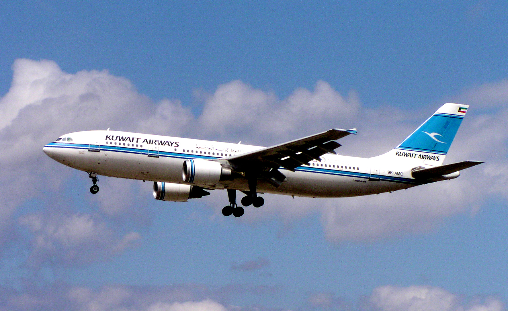 Kuwait Airways A300-600R in Frankfurt/Main, July 2005. tail number 9K-AMC